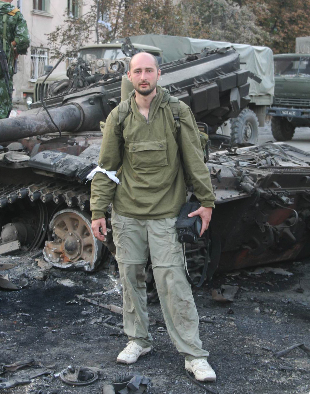 Arkady Arkadyevich Babchenko, in August 2008